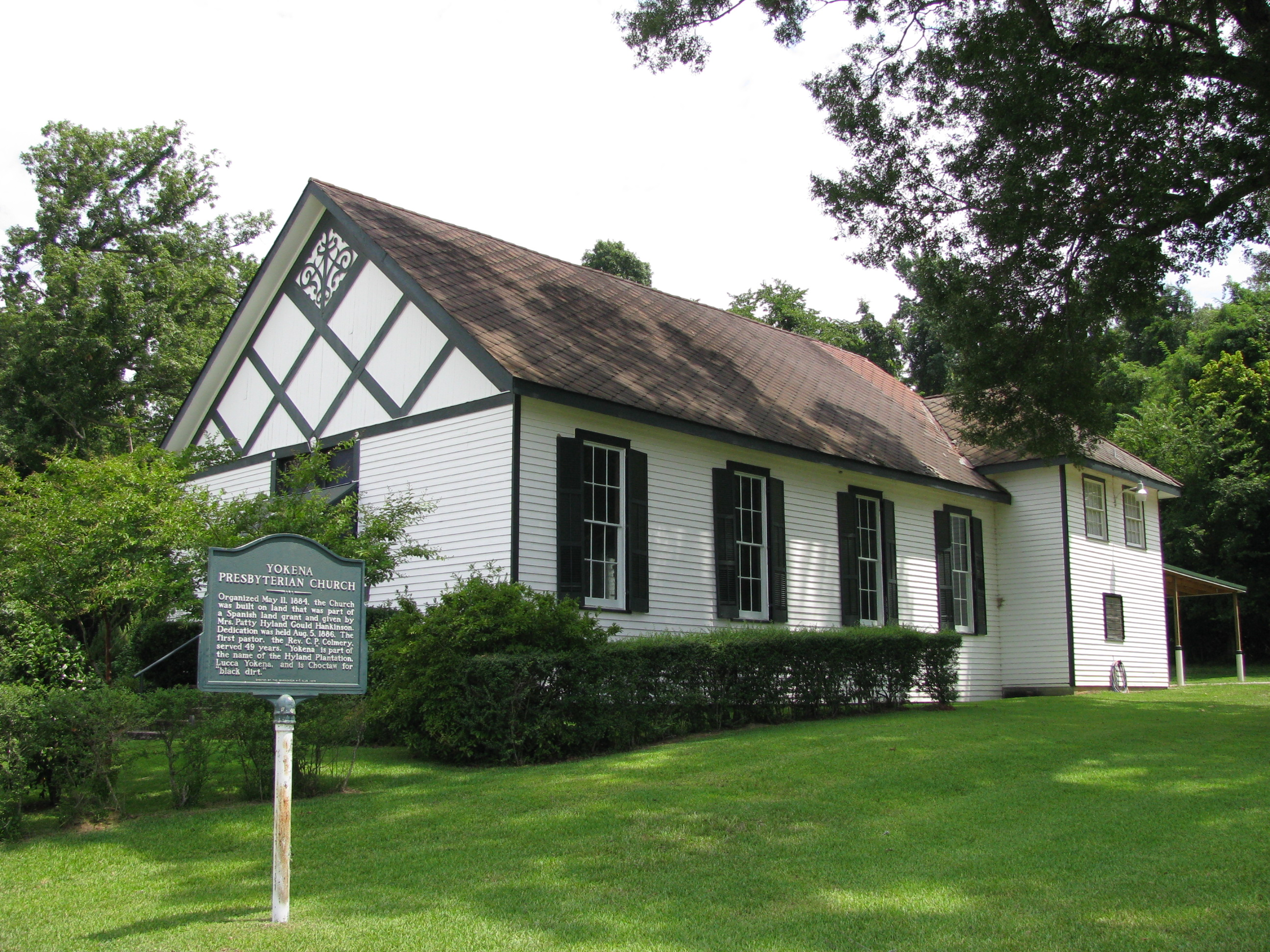 South of Vicksburg on Highway 61 in Warren County, Mississippi.